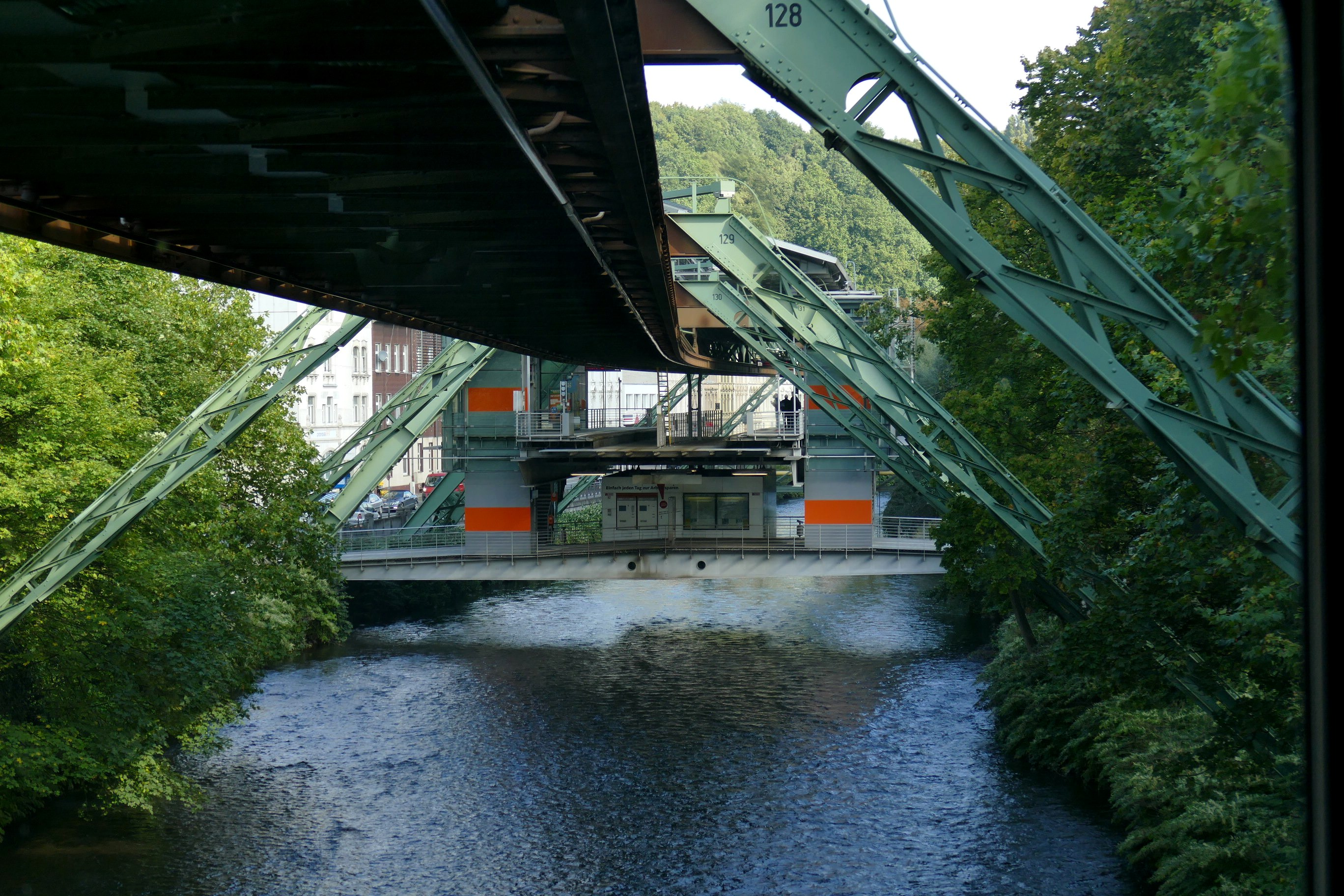 Haltestelle Varresbecker Straße der Schwebebahn - Wuppertal, 26.9.2015